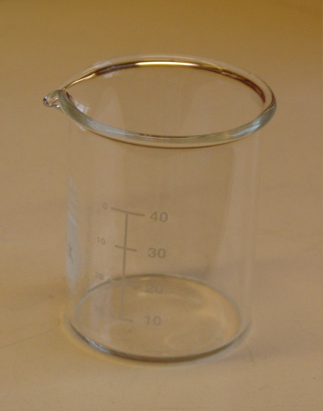 Approximate volume markings are visible on the side of this small beaker.